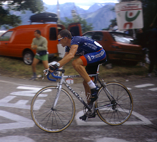 Armstrong riding to victory at L'Alpe d'Huez, during stage 10 of the 2001 Tour de France. Lance Armstrong on virage 5 of the climb to l'Alpe d'Huez, during stage 10 of the 2001 Tour de France. Original photograph taken and upload by User:Ricadus on 17 July 2001.